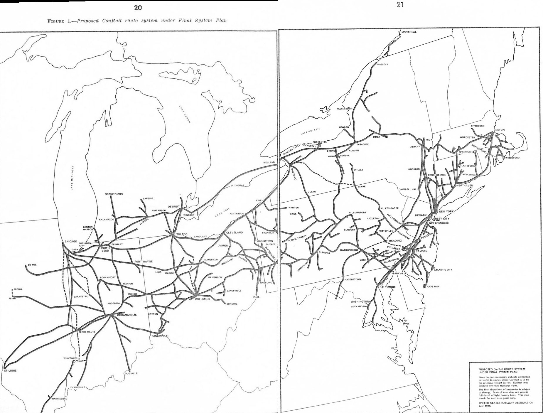 Map of proposed Conrail route system. The plan does not include much of the Erie Lackawanna Railway or Reading Company, which the Chessie System was to get.